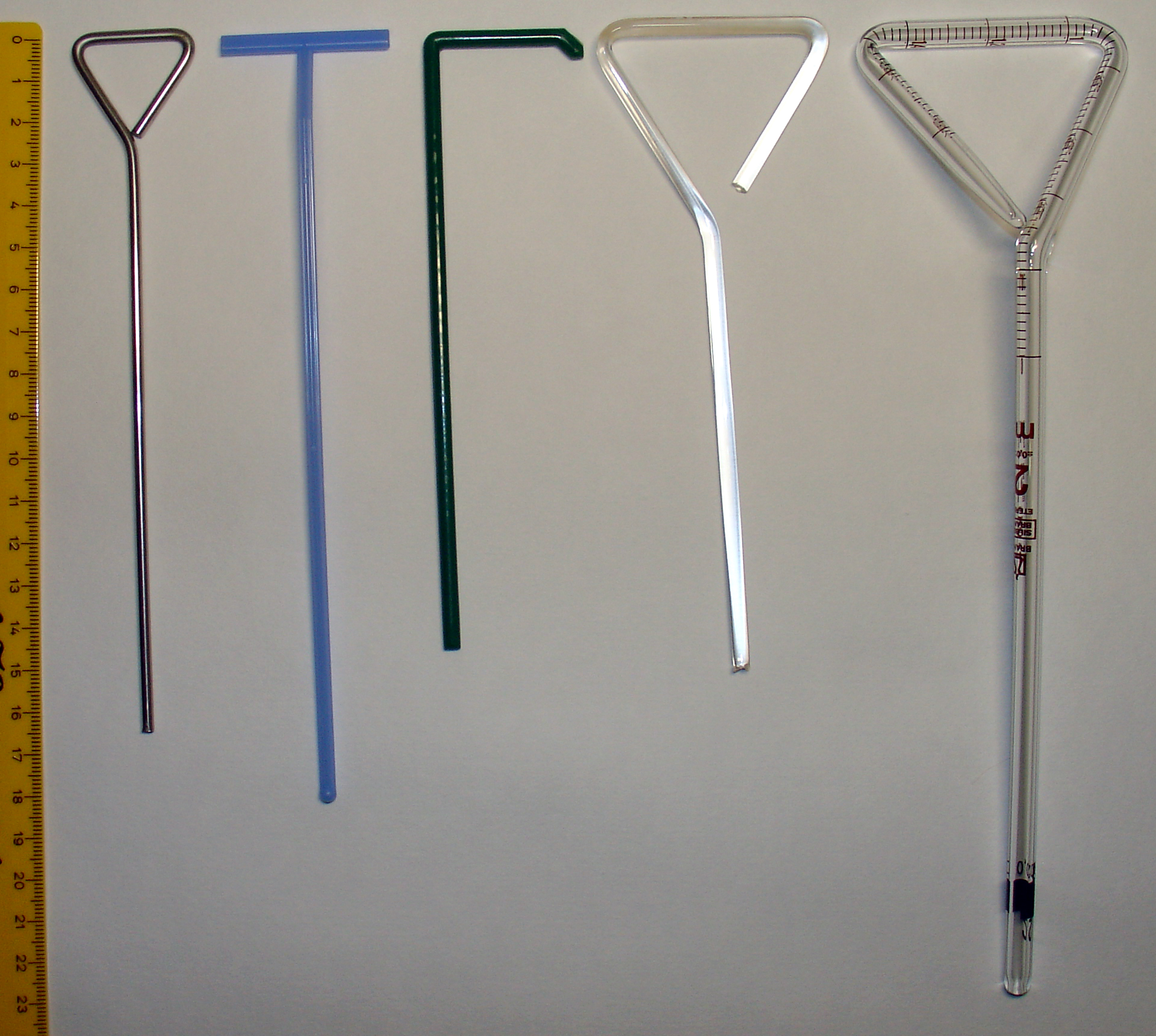 Set of different types of bacteria spreaders. From left: metal one, two disposable plastic ones, glass one made out of glass rod and improvised, self-made spreader made of glass pipette